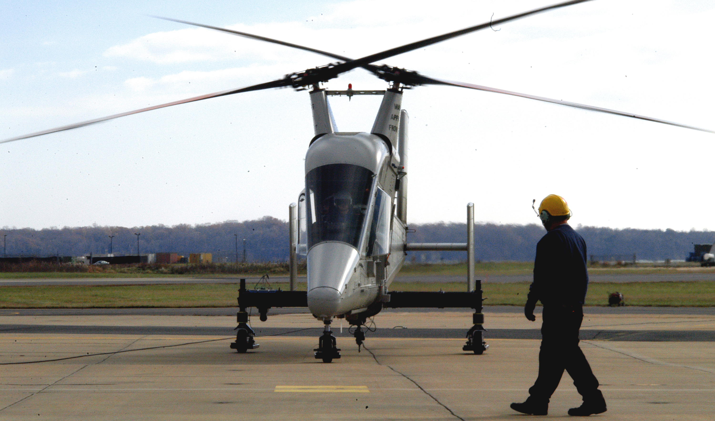 With the base of the frame only 2.5 feet in width and low noise signature, the K-MAX has the ability to deliver cargo with the possibility of not being noticed by the enemy.